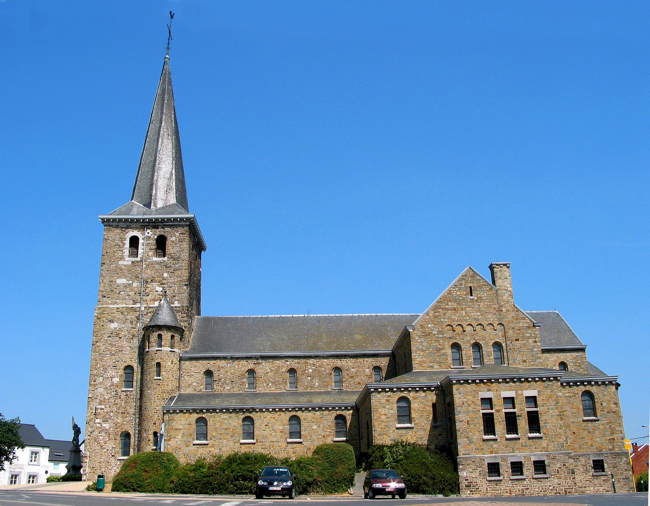 Verlaine (Belgium), the Saint Remigius' church.